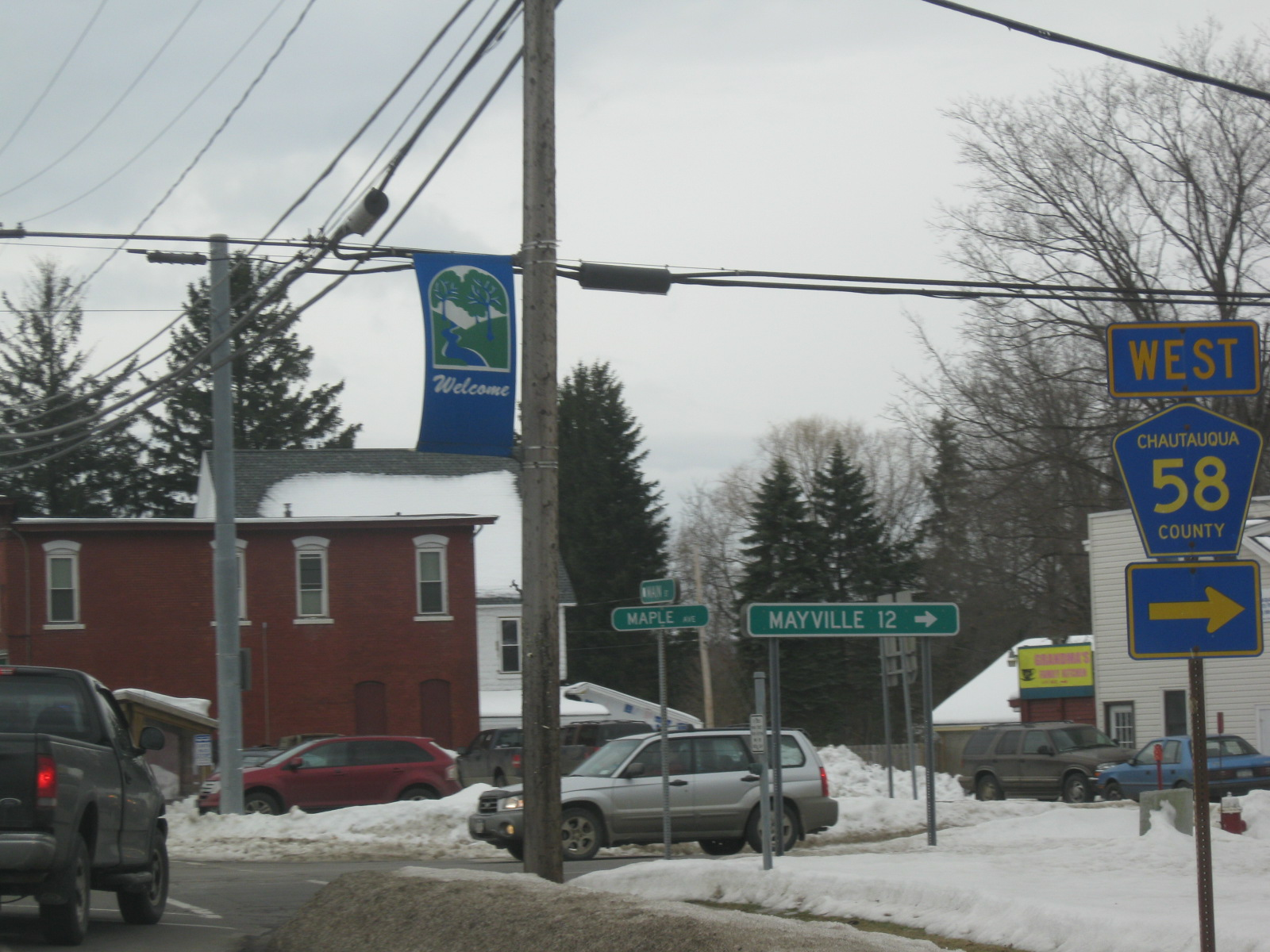 New York State Route 60 southbound at an intersection with County Route 58 in Cassadaga, New York.